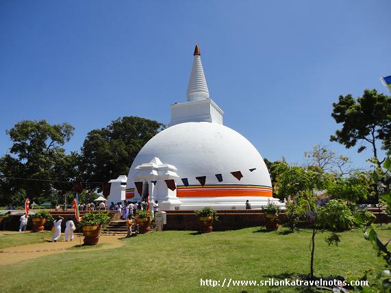 Somawathie Chetiya